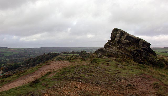 Ashover Rock or Fabrick near Ashover in Derbyshire